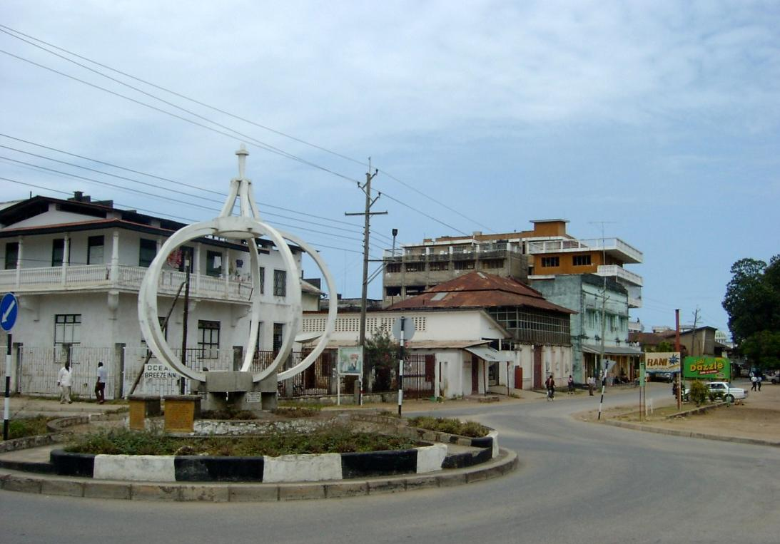 Tanga, Tanzania, town centre